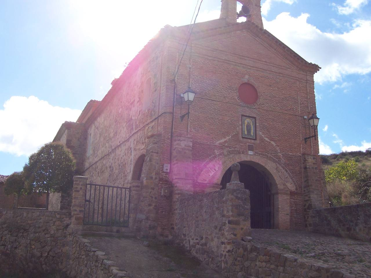 Hermitage of Laguna de Cameros in La Rioja (Spain)